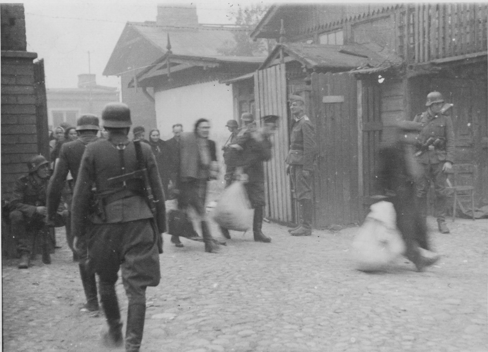 Jews enter Umschlagplatz prior to deportation during Warsaw Ghetto Uprising.